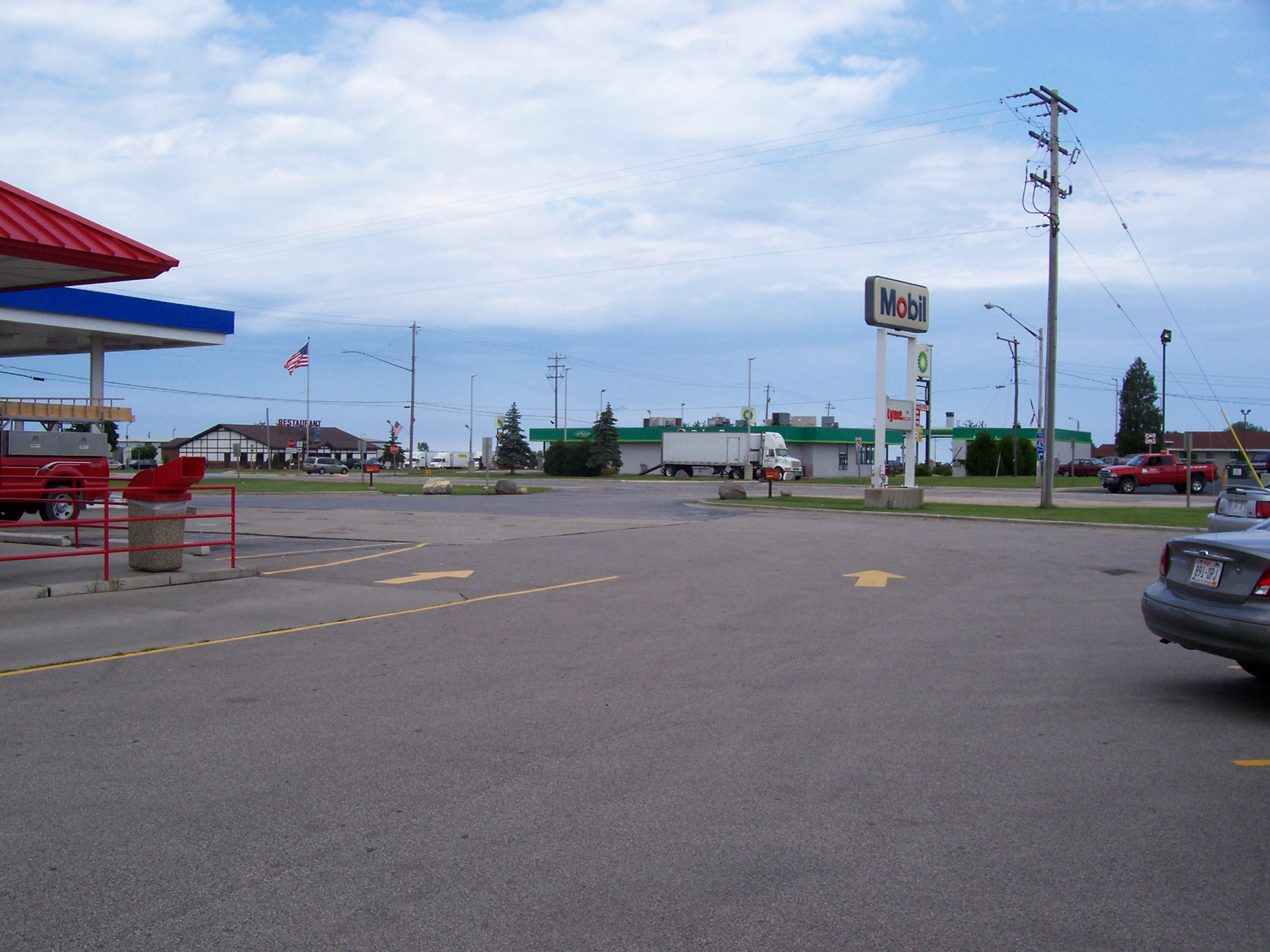 Image of Belgium, Wisconsin in Ozaukee County, taken June 14, 2006 by myself, looking east towards Interstate 43